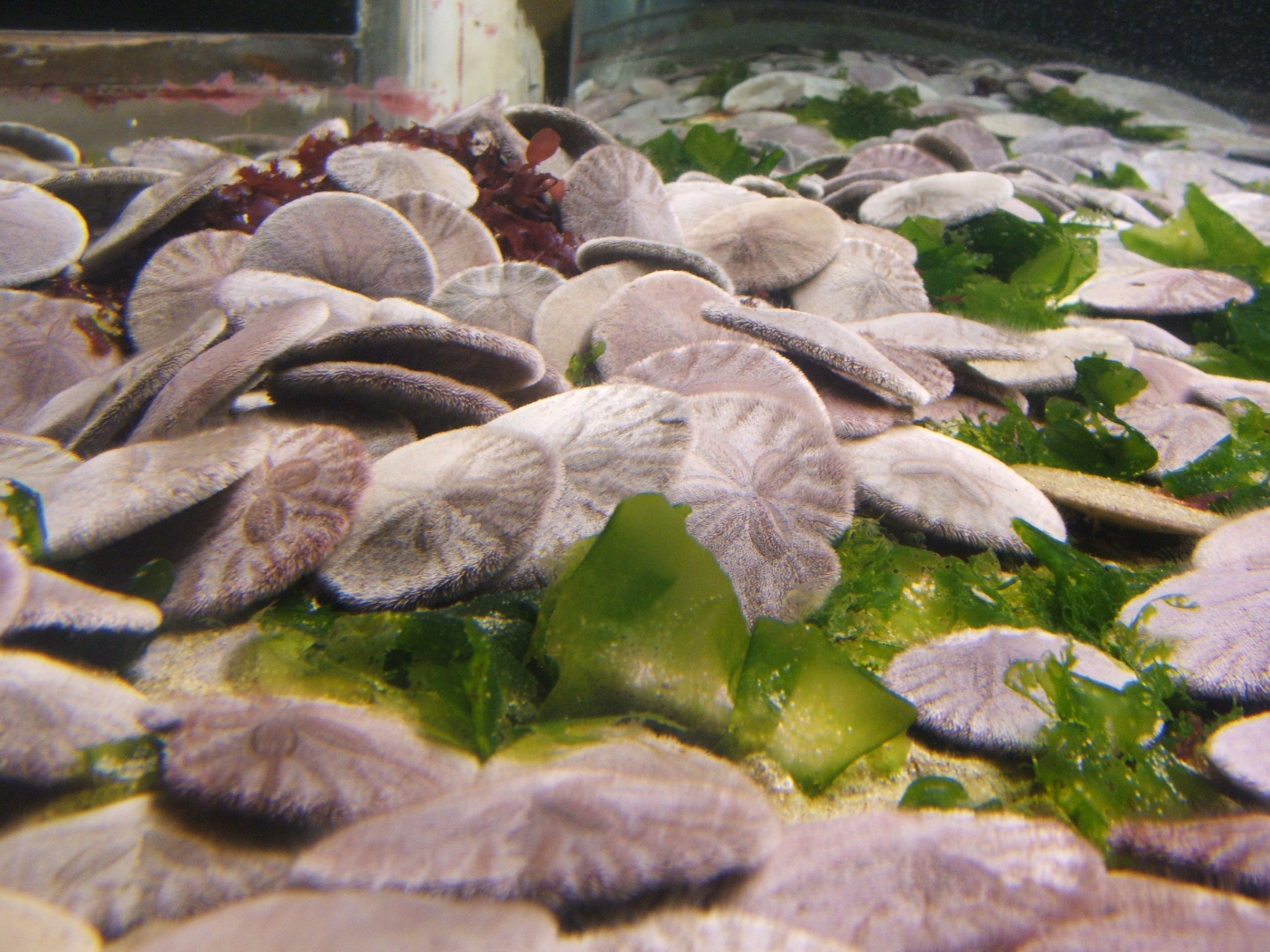 Monterey Bay Aquarium